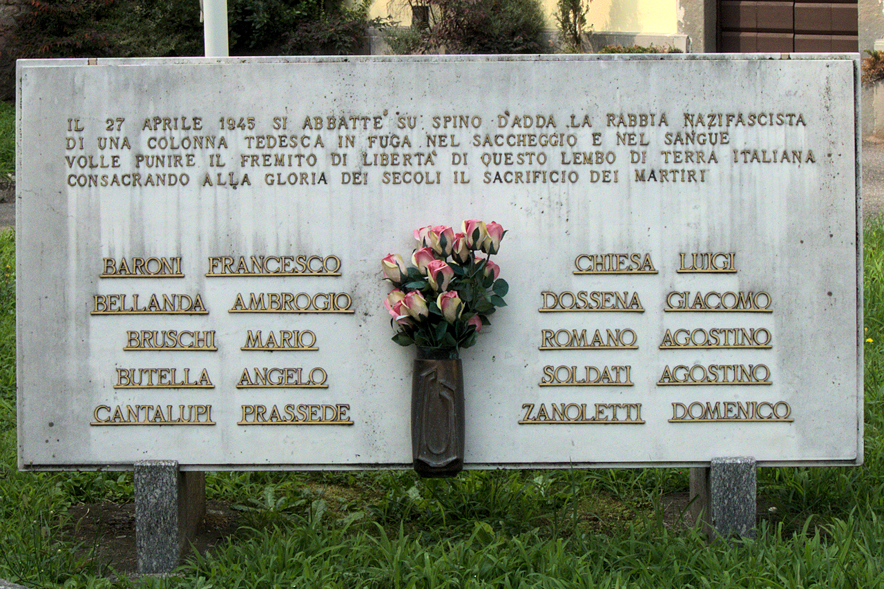 Commemorative plaque that remembers the fallen of the massacre at Spino d'Adda by German soldiers April 27, 1945